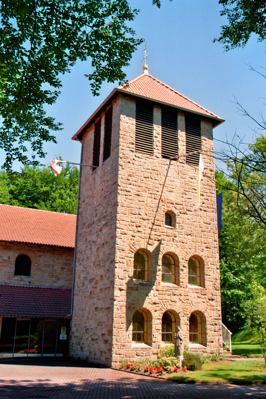 Roman Catholic St.-Barbara-Kirche (St Barbara church) in Ibbenbüren-Dickenberg, Kreis Steinfurt, North Rhine-Westphalia, Germany.